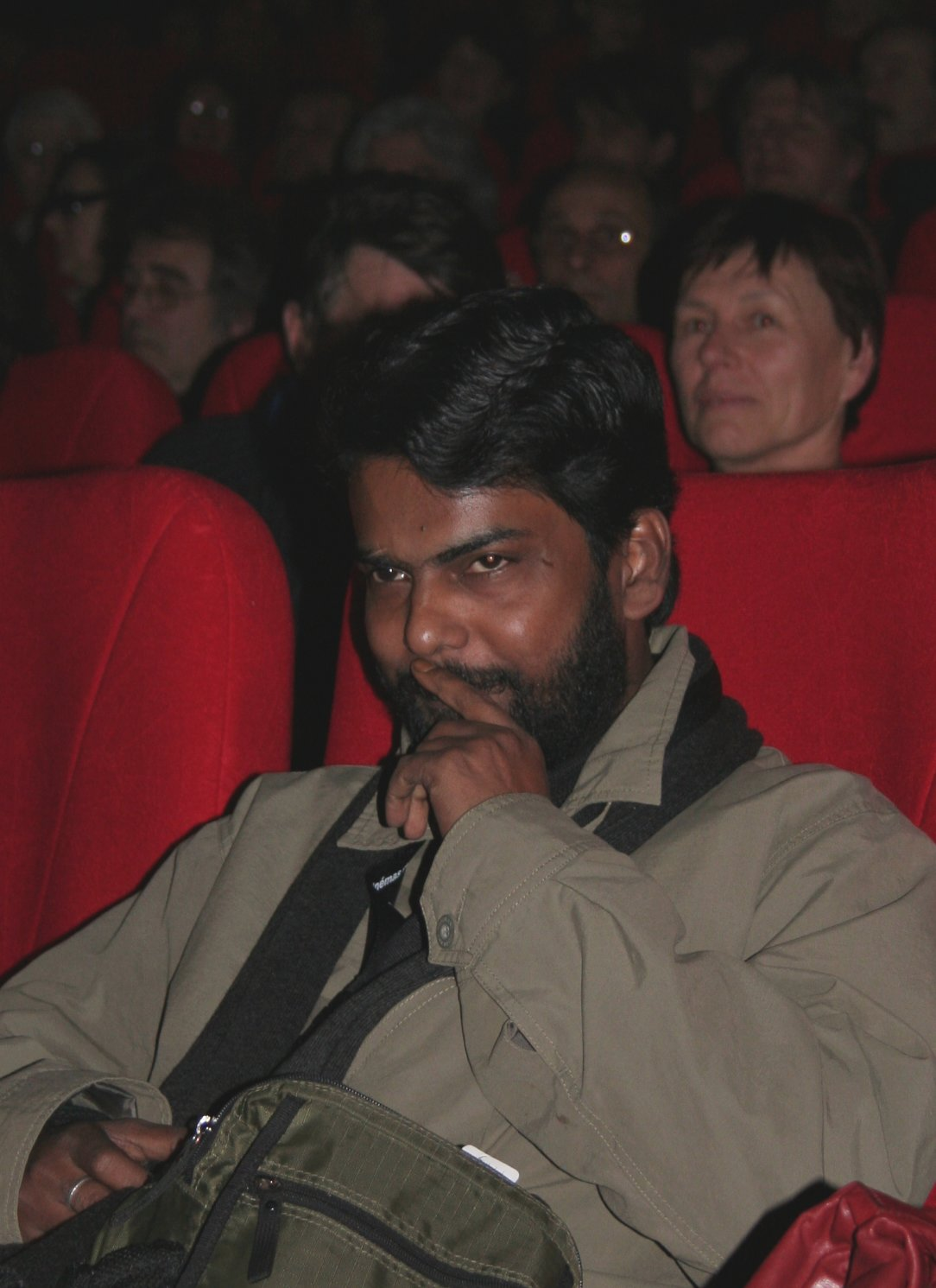 Bappaditya_Bandopadhyay at international asian movies festival in Vesoul